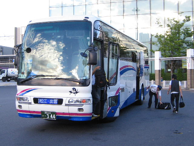 MitsubishiFuso AeroQueen Chugoku JR Bus "Shimane 200 ka 344" Use "Izumo Matsue Dream Nagoya"